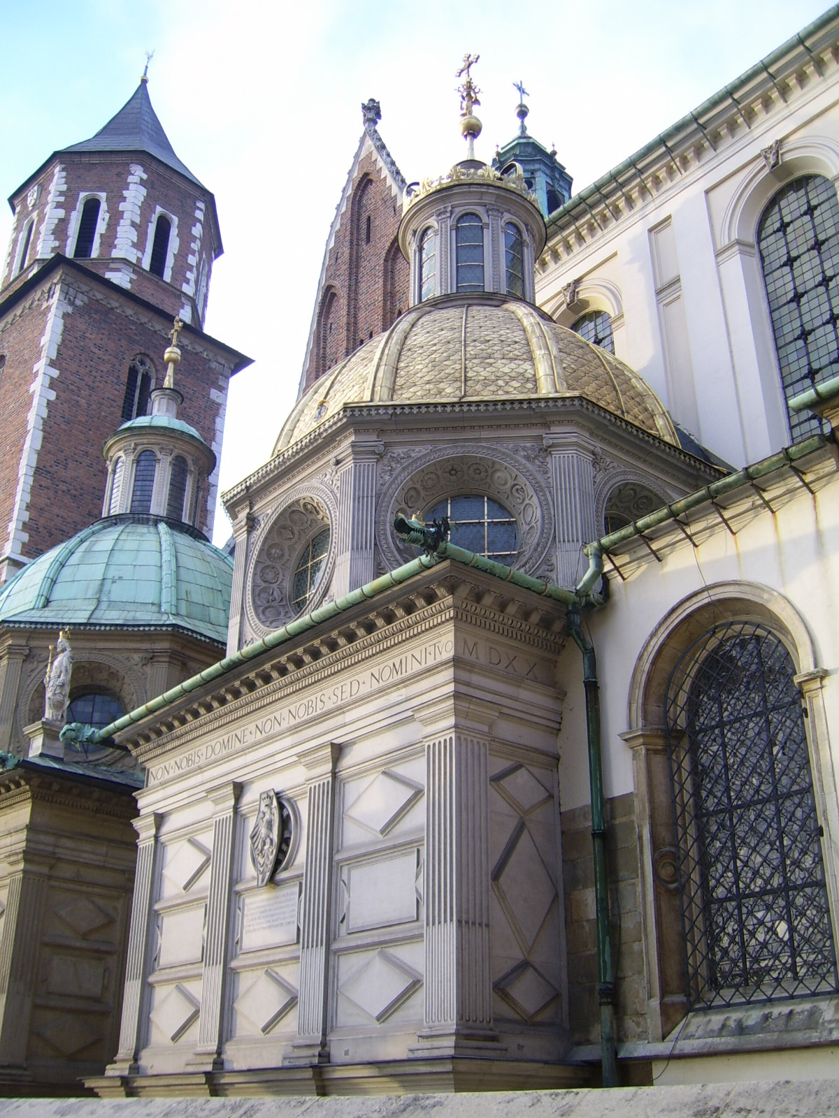 Sigismund Chapel